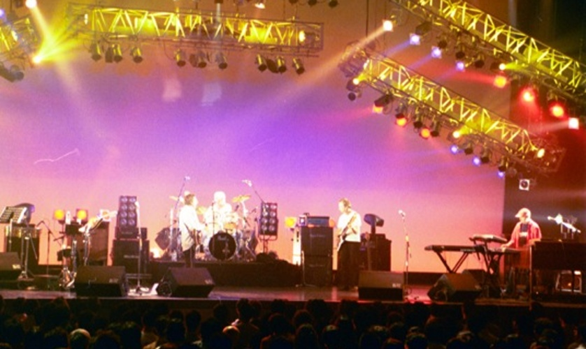 Australian symphonic rock band, Sebastian Hardie performing live in Japan in 2003